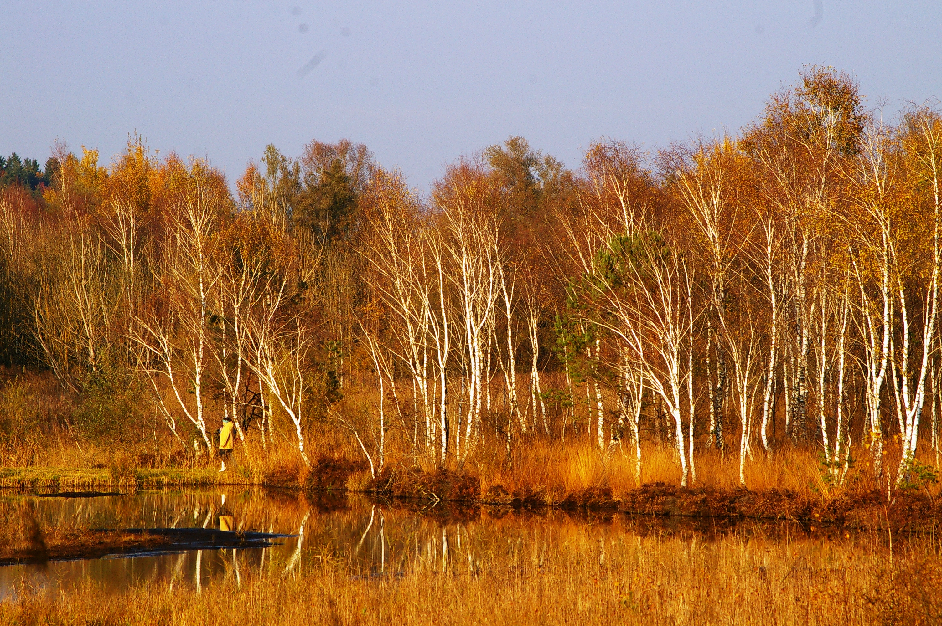 Moorland in Austria